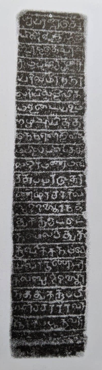 Hingurakdamana pillar inscription in the reign of Gajabahu II